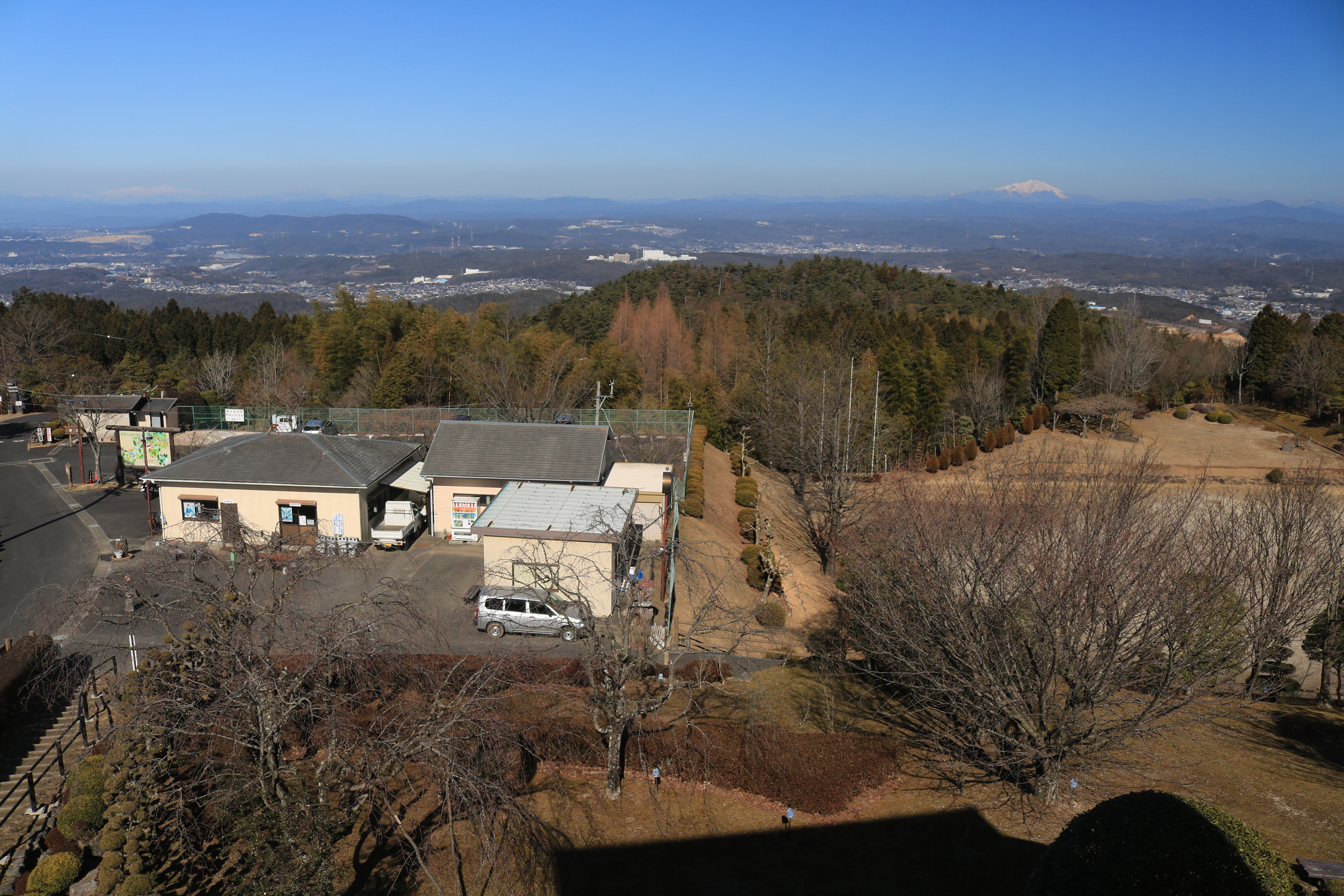 Kasahara Shiomi Forest, park in Tajimi, Gifu Prefecture, Japan.